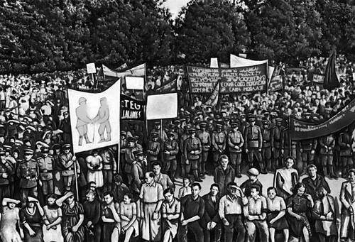 A wellcome of Soviet Army on 1940 06 19